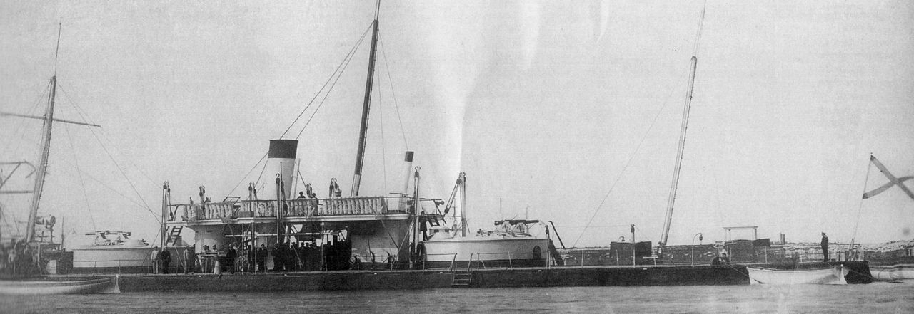 Twin turret armoured boat Rusalka.